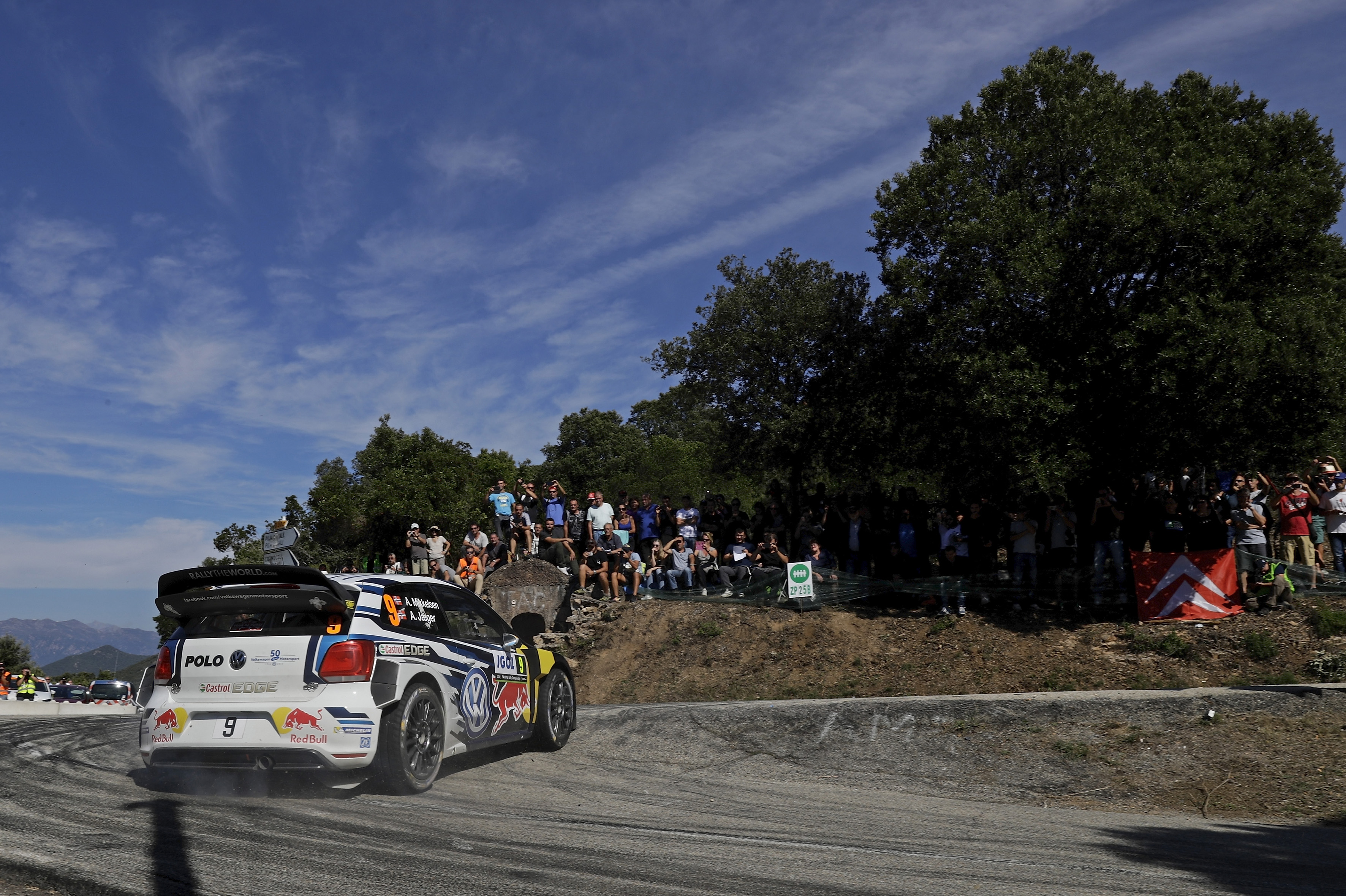 Andreas Mikkelsen and Anders Jæger in their Volkswagen Polo R WRC at the 2016 Rally France.